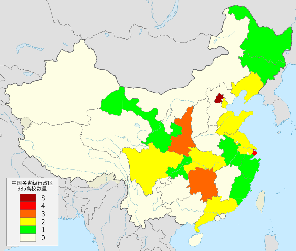 Numbers of "Project 985"-sponsored universities in each province of China.